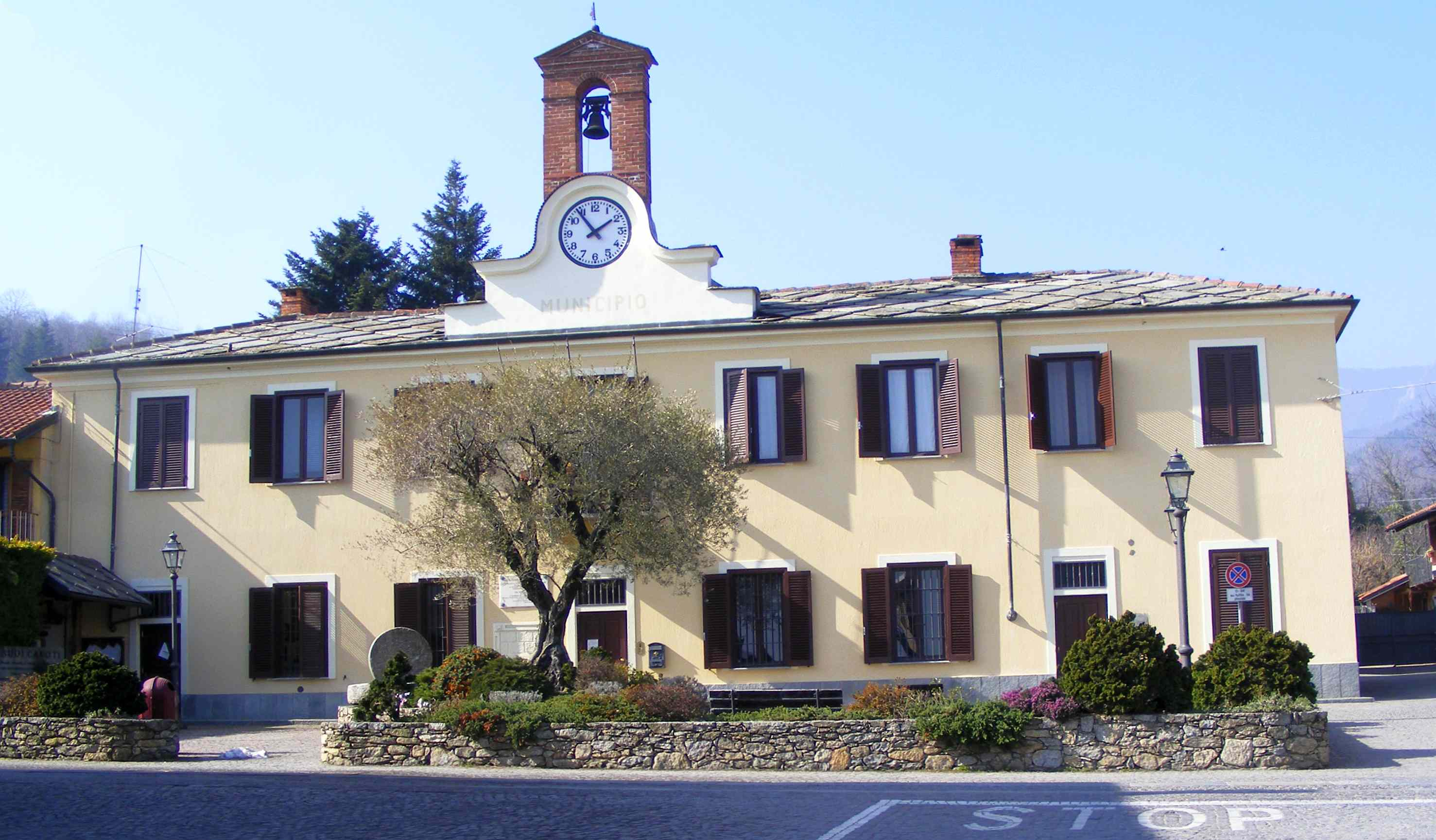 Cantalupa (TO, Italy): town hall